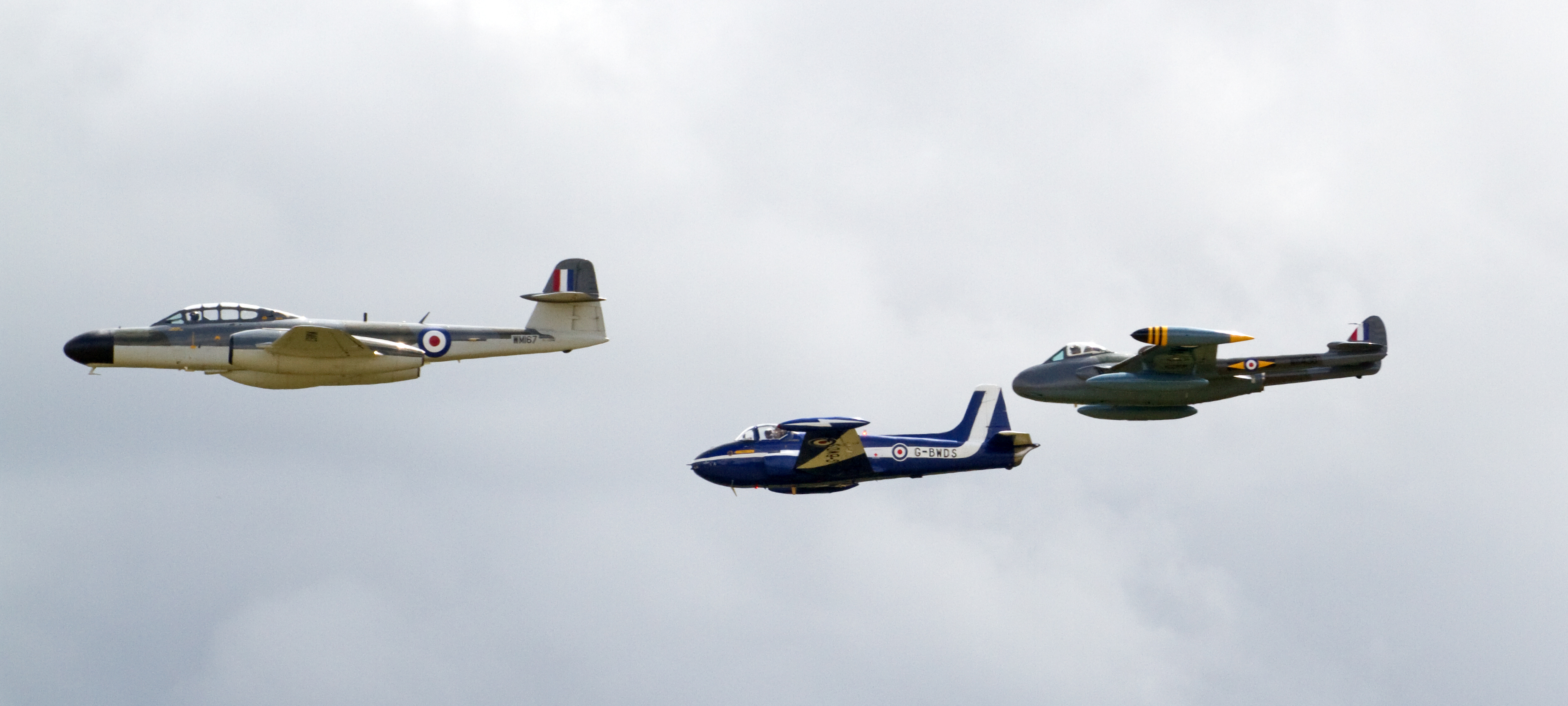 Seen during a short display over Cosford for 'Aero Engine Controls' Family day out. (AEC is a Rolls Royce, Goodrich joint company)